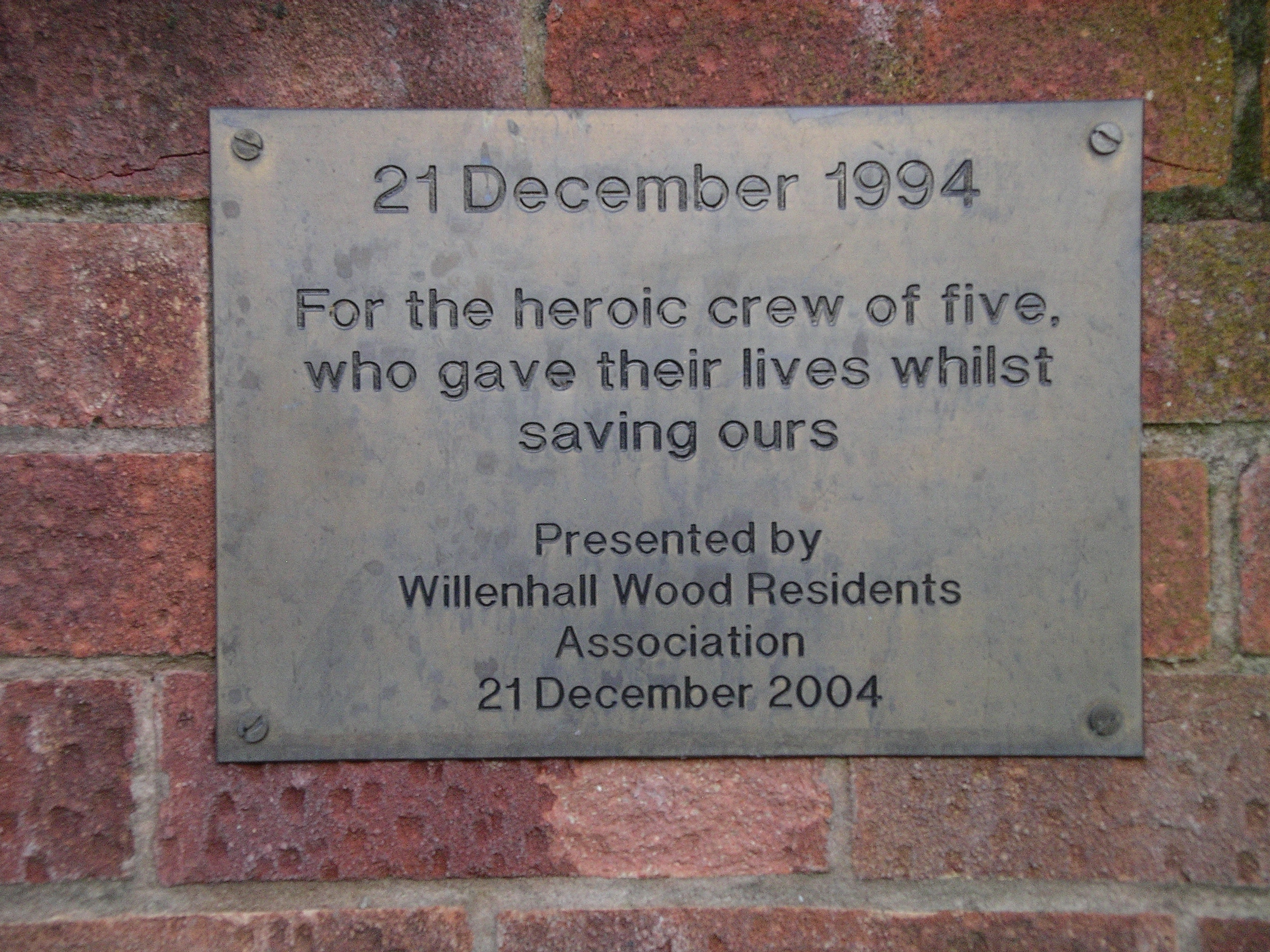 Plaque on brick wall in Middle Rise, Willenhall, Coventry, England. It commemorates an aircraft crash that happened at that site on 21 December 1994. It was presented on the tenth anniversary of the crash.